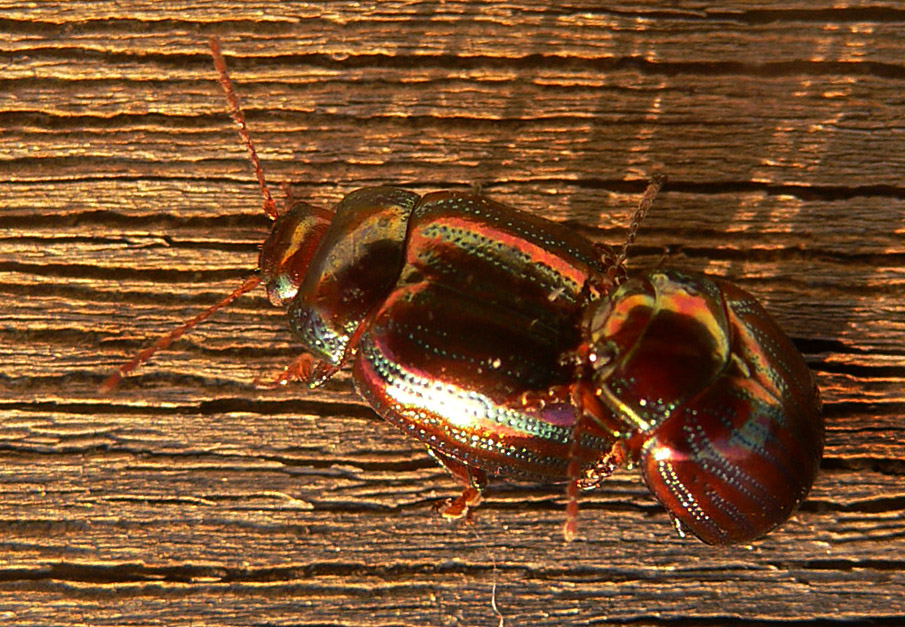 Beetle ; Chrysolina americana (Chrysomelidae) found on rosemary in northern France in Marcq en Baroeul near Lille, October 14, 2007. (Invasive species?)